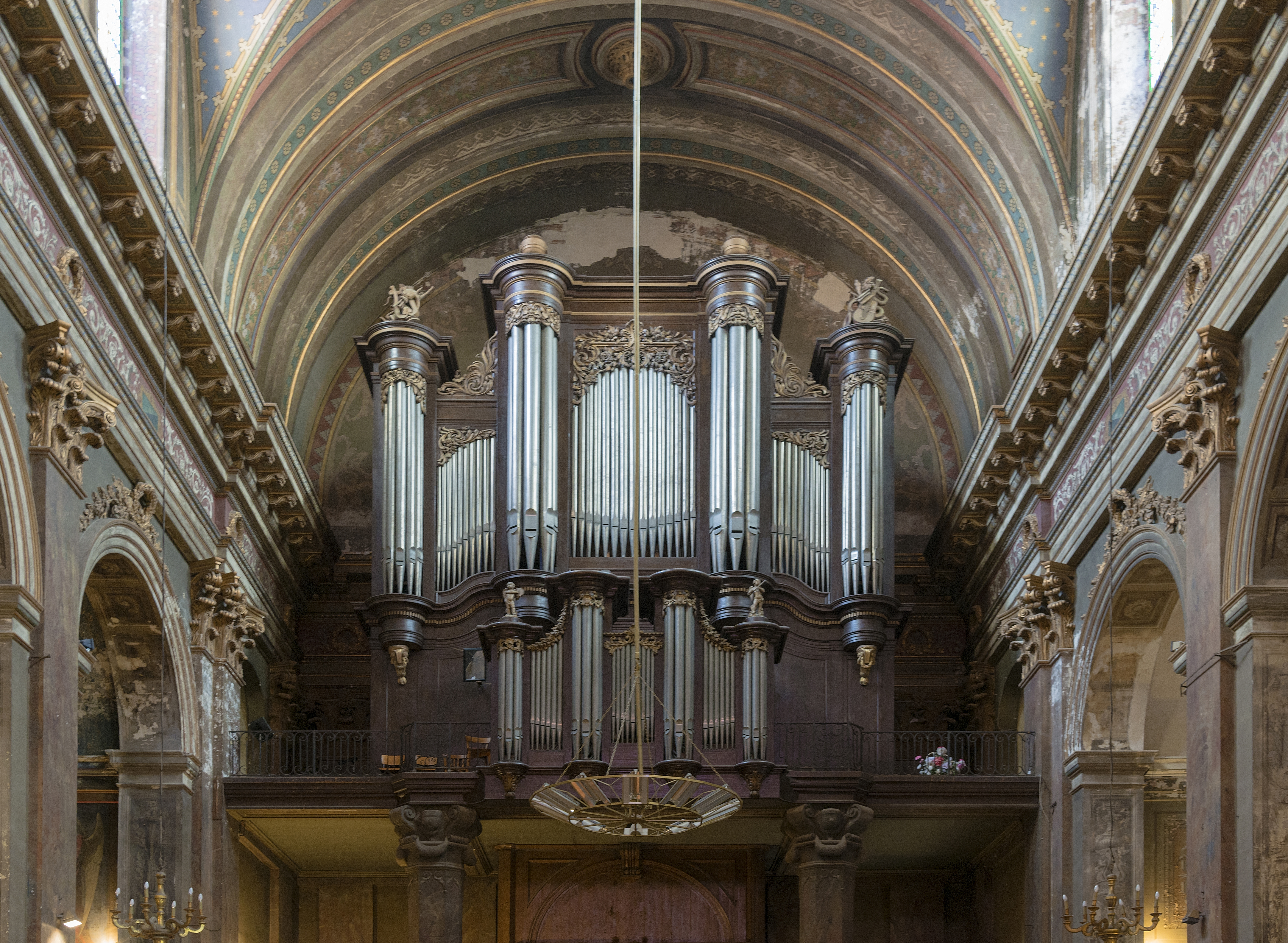 Gallery organ, By Emile Poirier et Nicolas Lieberknecht (organbuilders) 1862 Basilica of Notre-Dame de la Daurade in Toulouse.